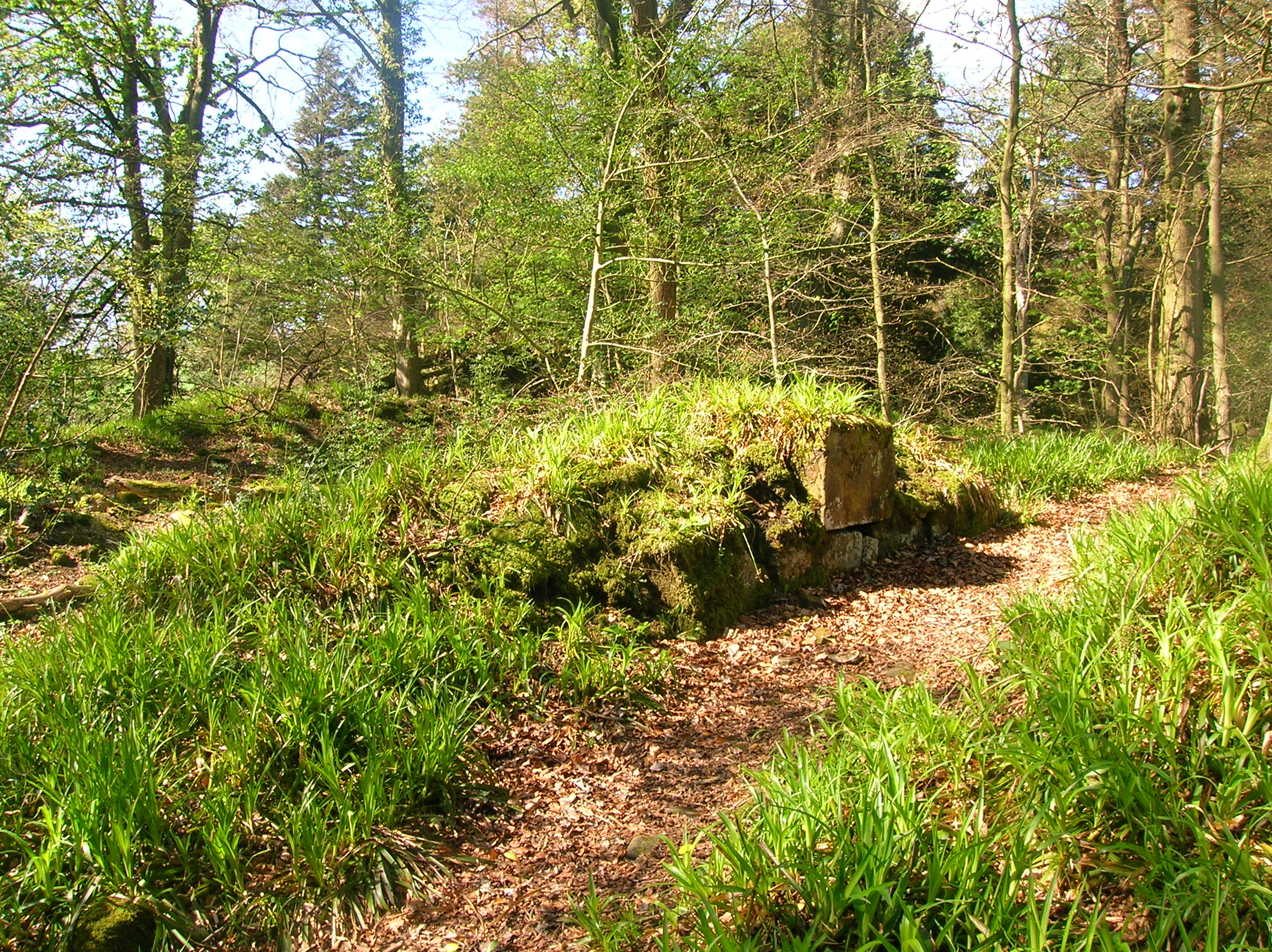 A view of old Montgreenan castle on the Lugton Water, North Ayrshire, Scotland. 2007. Rosser 12:32, 27 April 2007 (UTC)